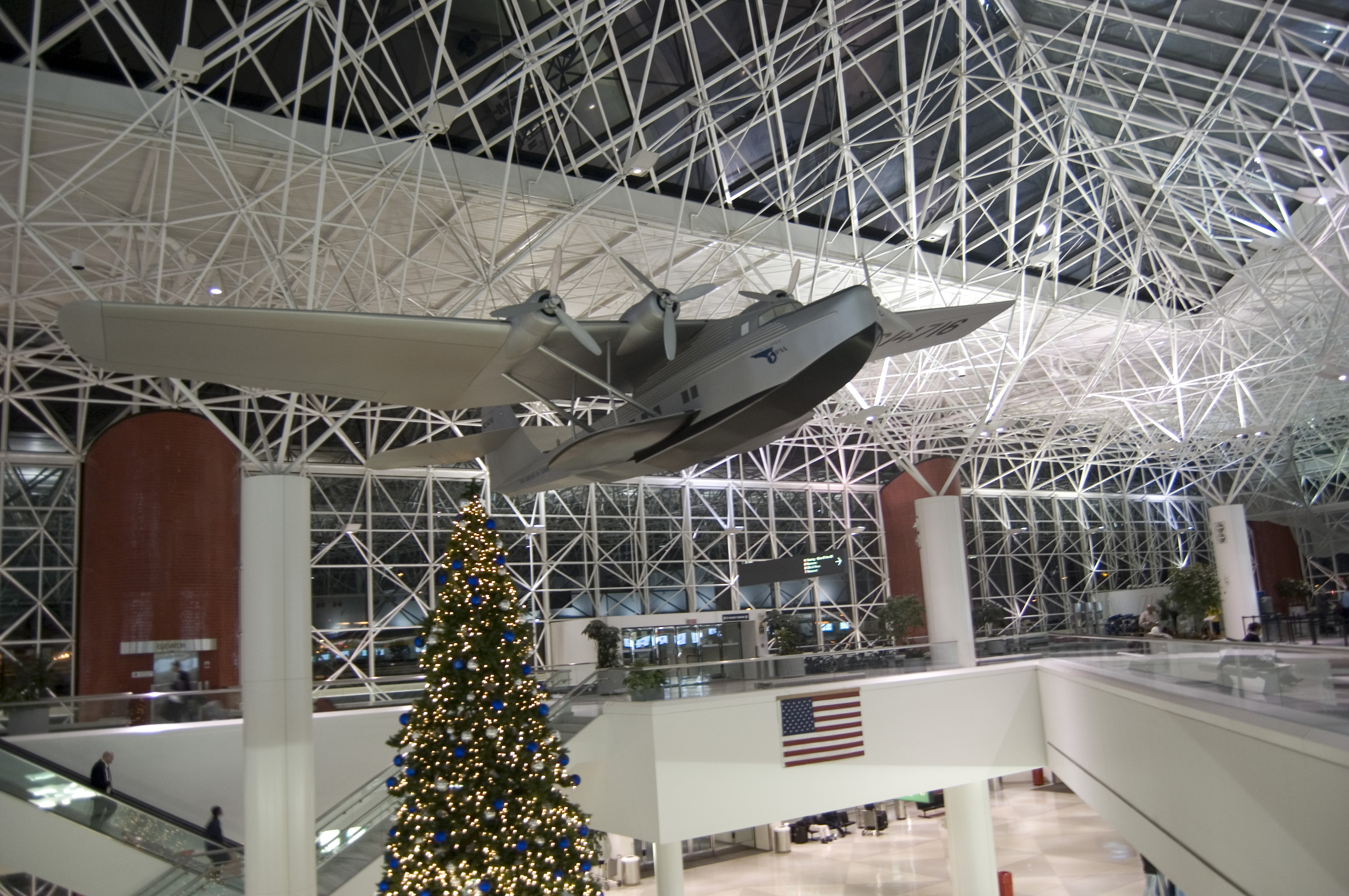 A shot of the main terminal